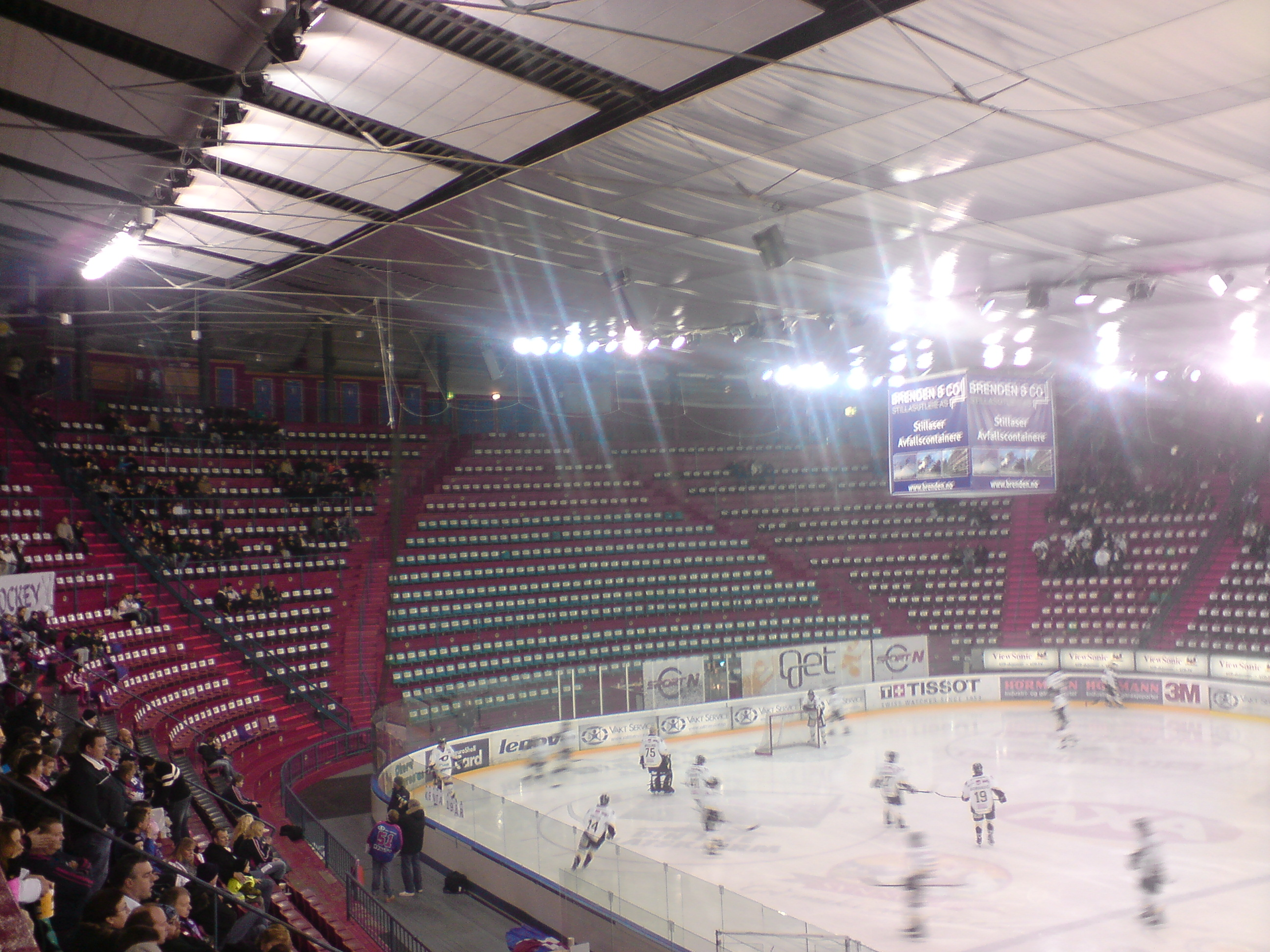 Inside the icehockey venue Jordal Amfi in Oslo